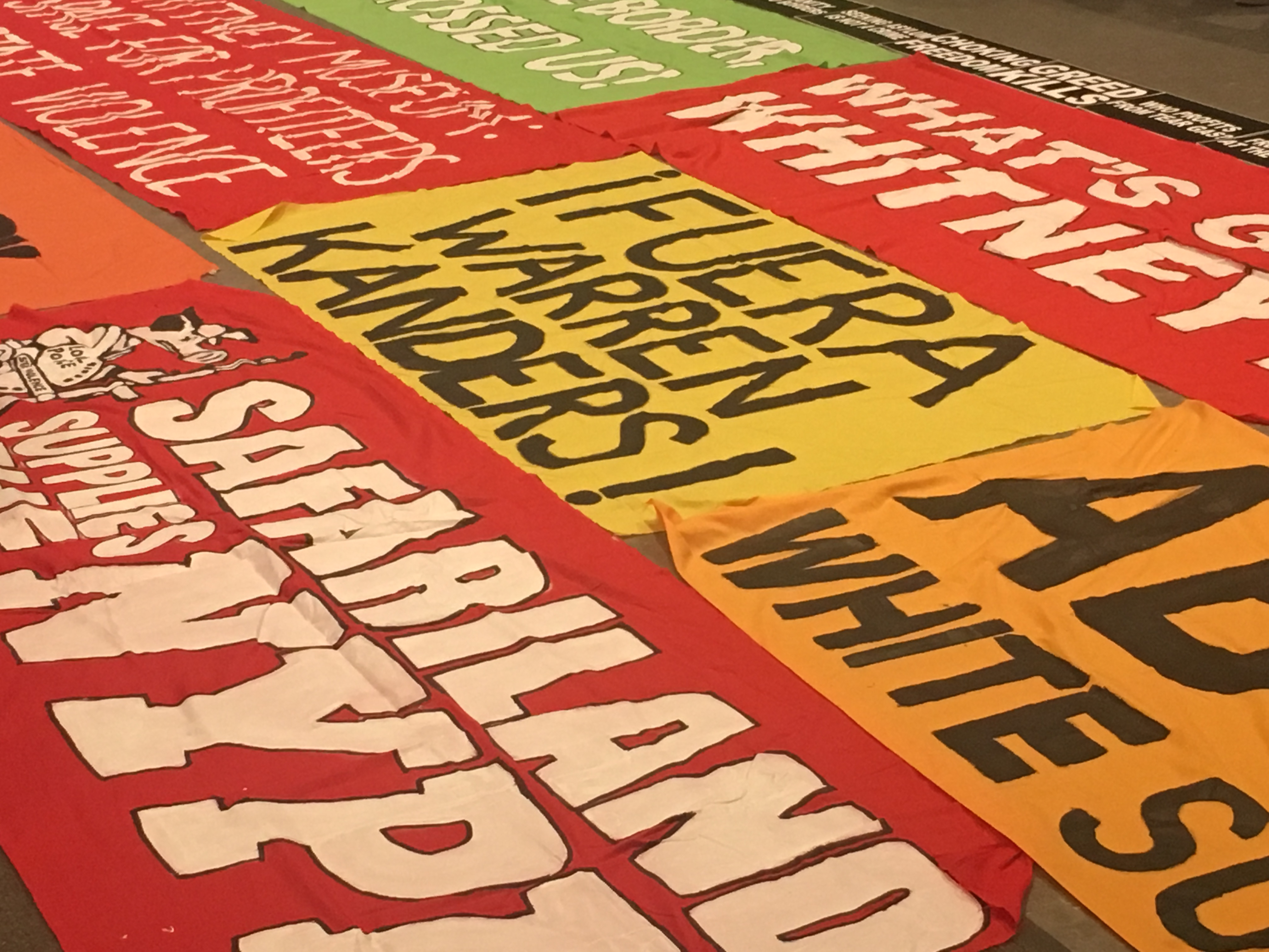 This photograph was taken of banners at a gathering of protestors at the lobby of the Whitney Museum, New York, NY, on April 5, 2019. This gathering was the third in a series of events leading up to the 2019 Whitney Biennial, organized to demand that the museum remove Warren Kanders from the museum Board because of his role as owner of weapons manufacturer Safariland.